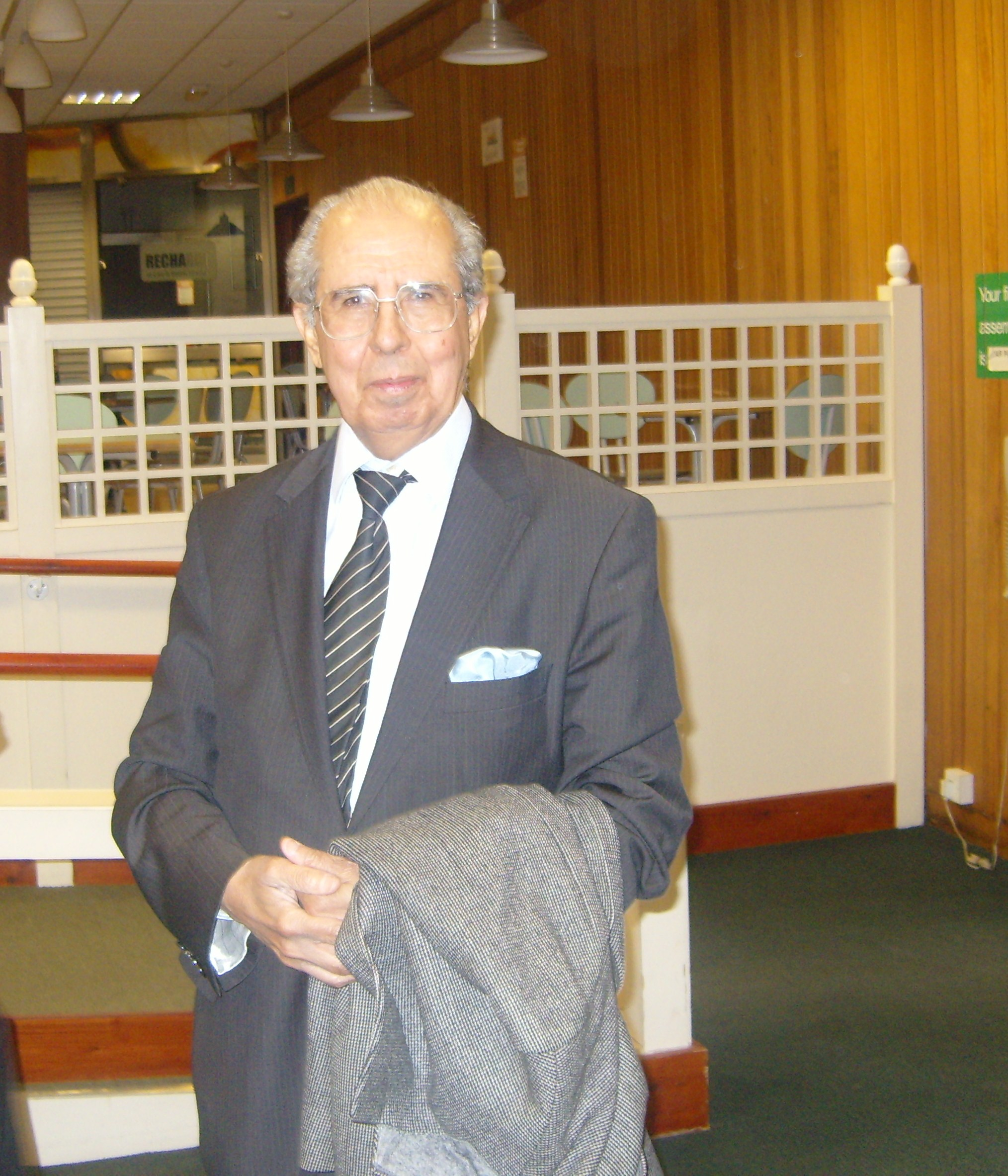 photo of Dr. Salman Abu-Sitta taken with his permission after a lecture in Nottingham University in UK in 1/Nov/2008.